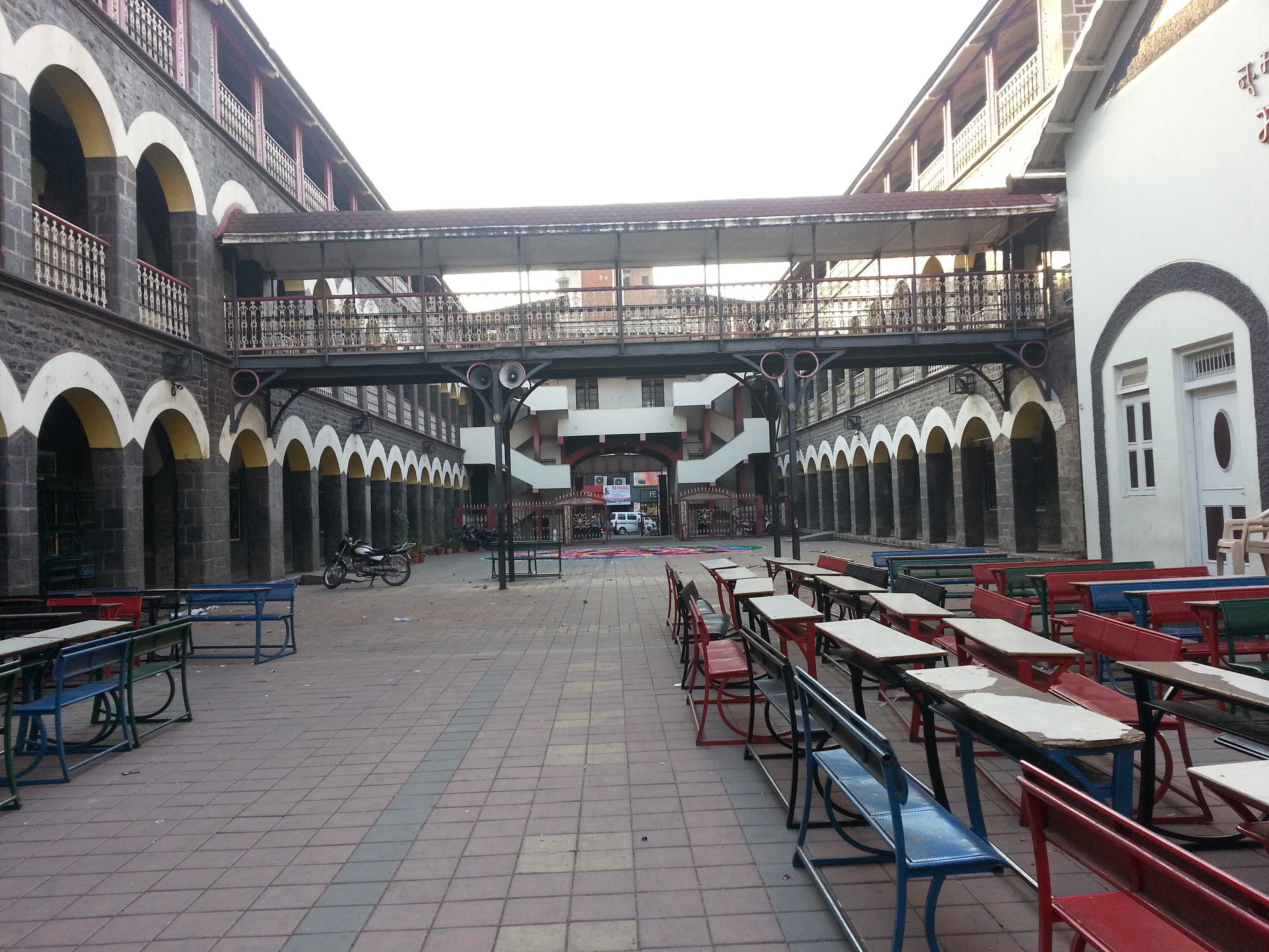 Nutan Marathi Vidyalaya Pune in January 2016